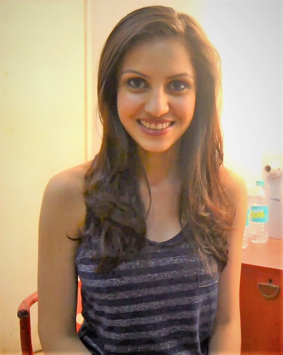 Exhibit Magazine Tech Stunner of March 2015 Koyal Rana, backstage after posing